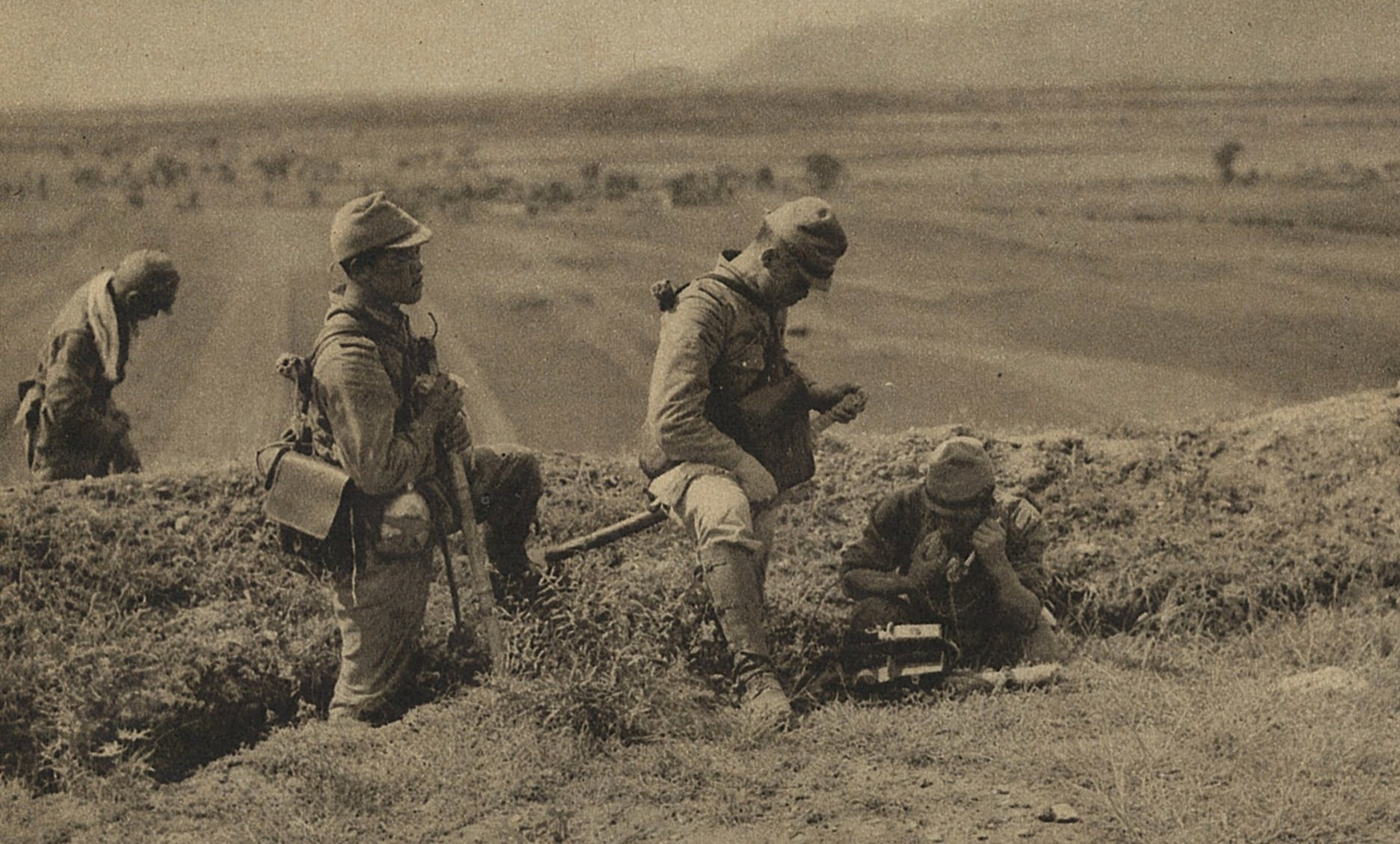 Selection of the September 1st 1937 ASAHIGRAPH magazine. The image depicts a group of Imperial Army soldiers working at the forefront of the battle to establish communications.